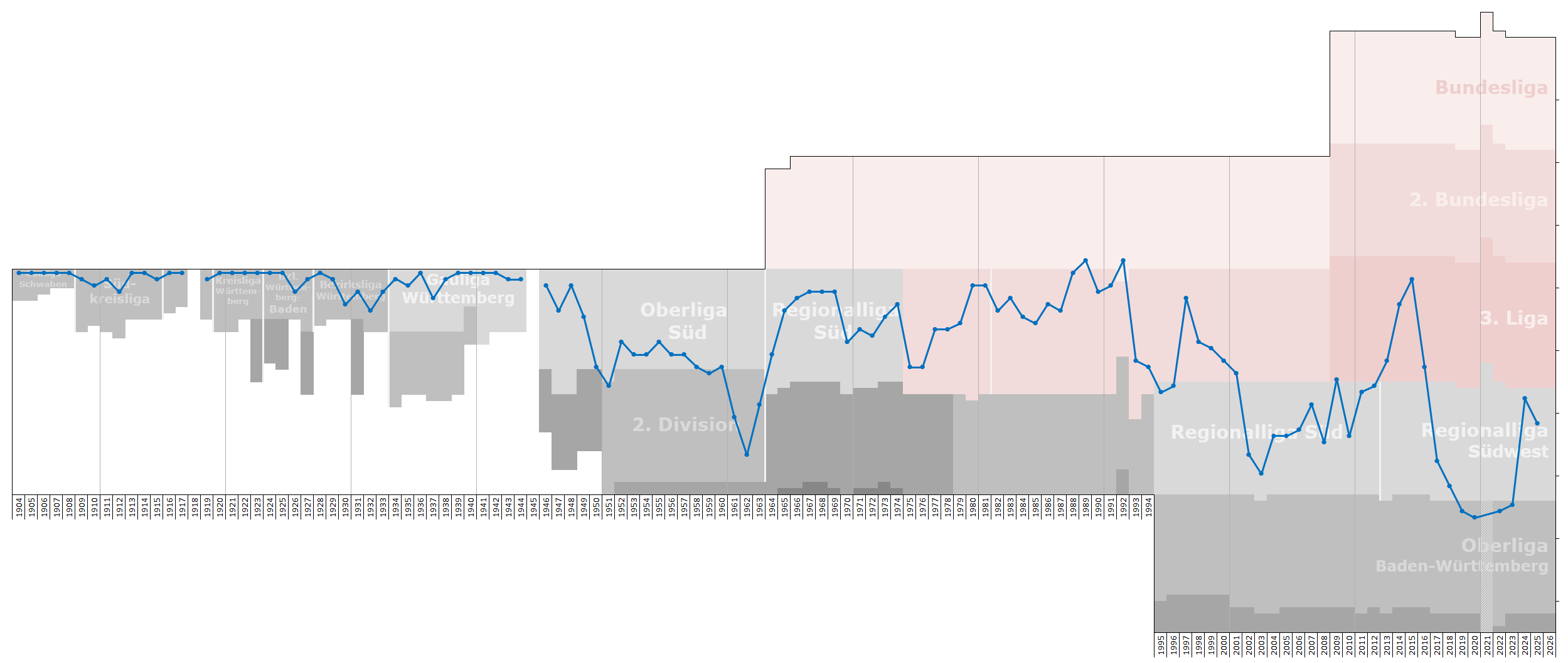 Chart of end-season table positions of Stuttgarter Kickers in the football league system of Germany. Data source: RSSSF, wikipedia, f-archiv.de, fussball.de